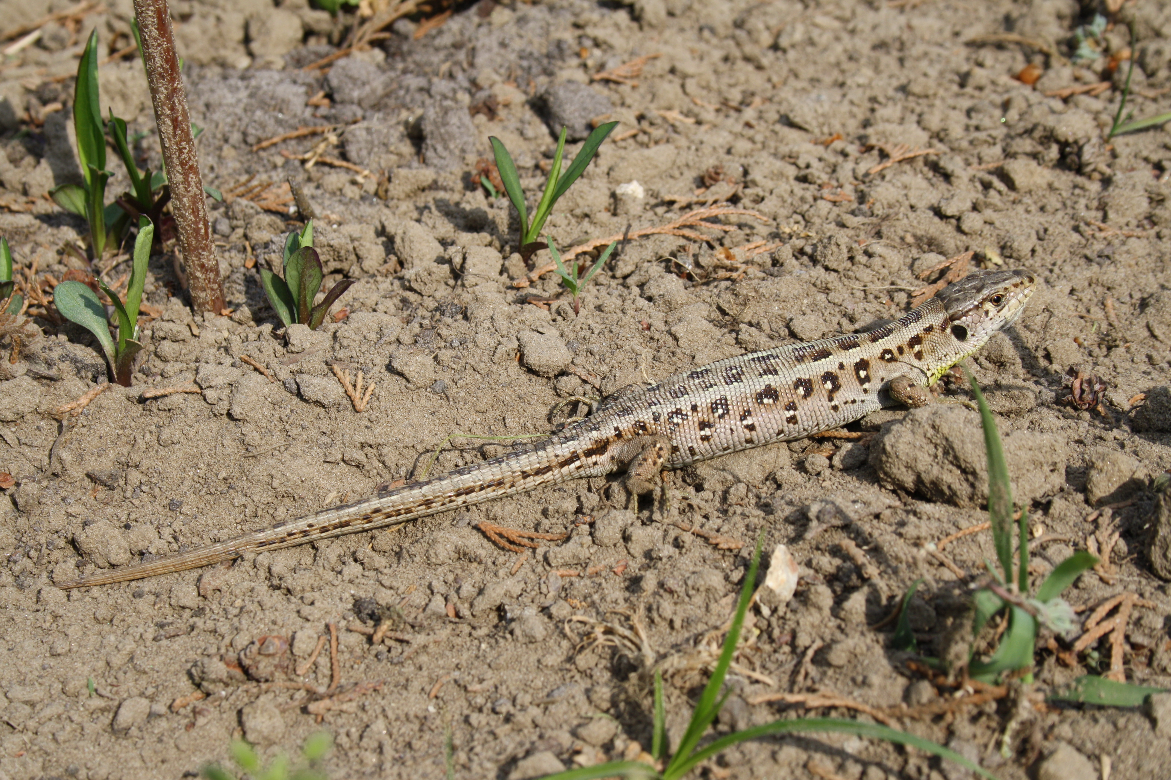 Sand Lizard